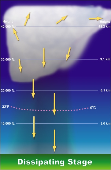 Diagram from NOAA National Weather Service training materials showing the dissipating stage of a thunderstorm